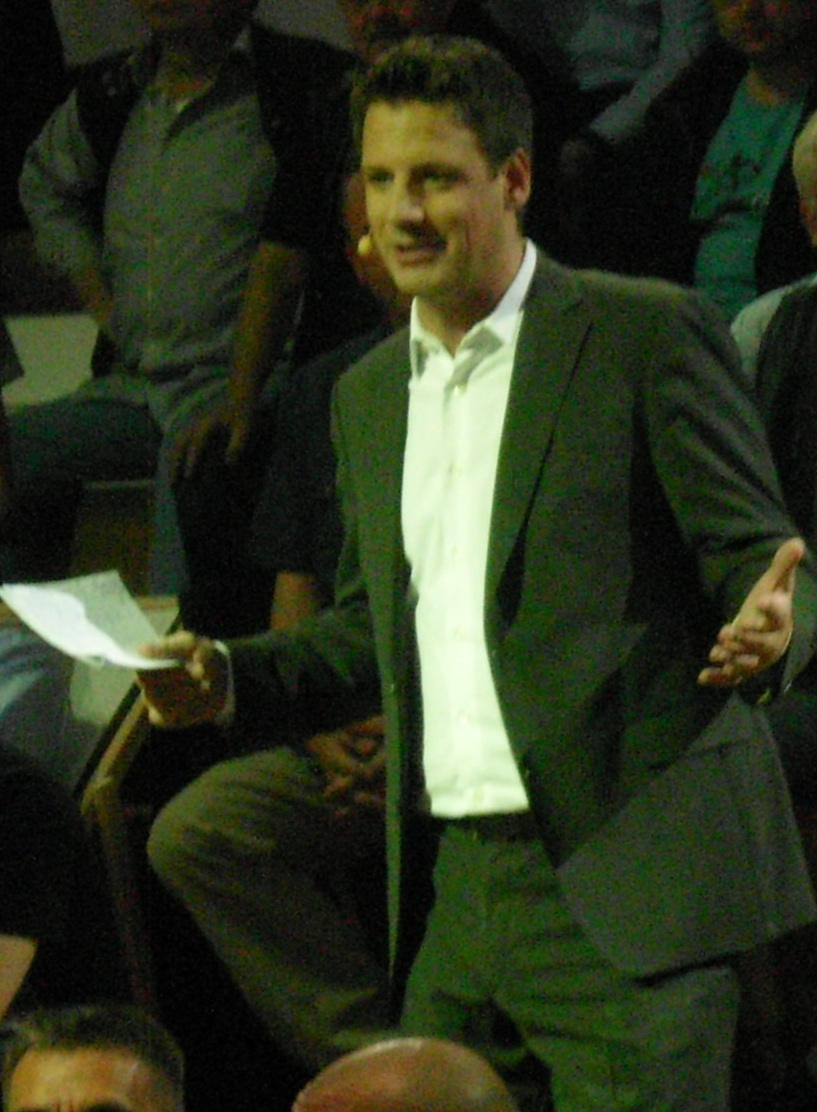 Klaus Gronewald at the International Consumer Electronics Fair in Berlin (IFA)